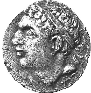 Coin showing Hasdrubal Barca, Hannibal's younger brother.